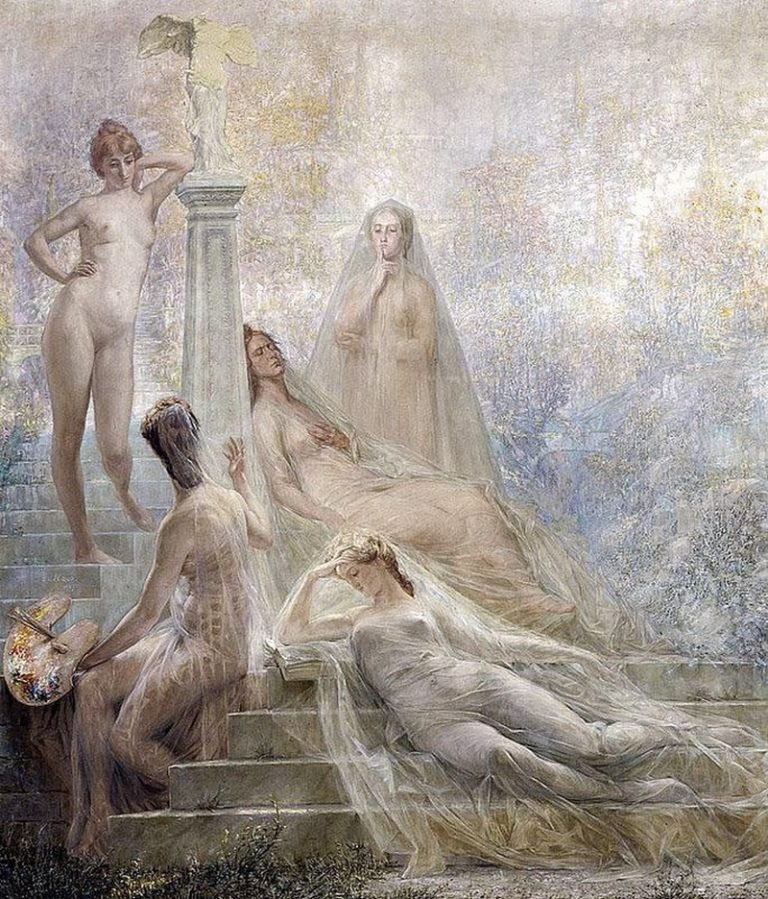 Allegory of the Arts